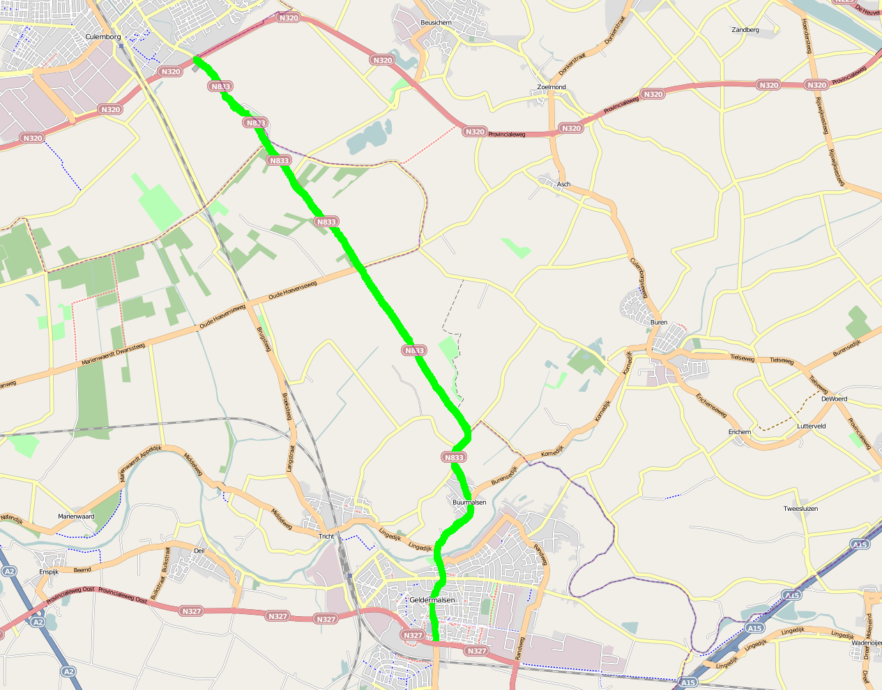 N833 in green